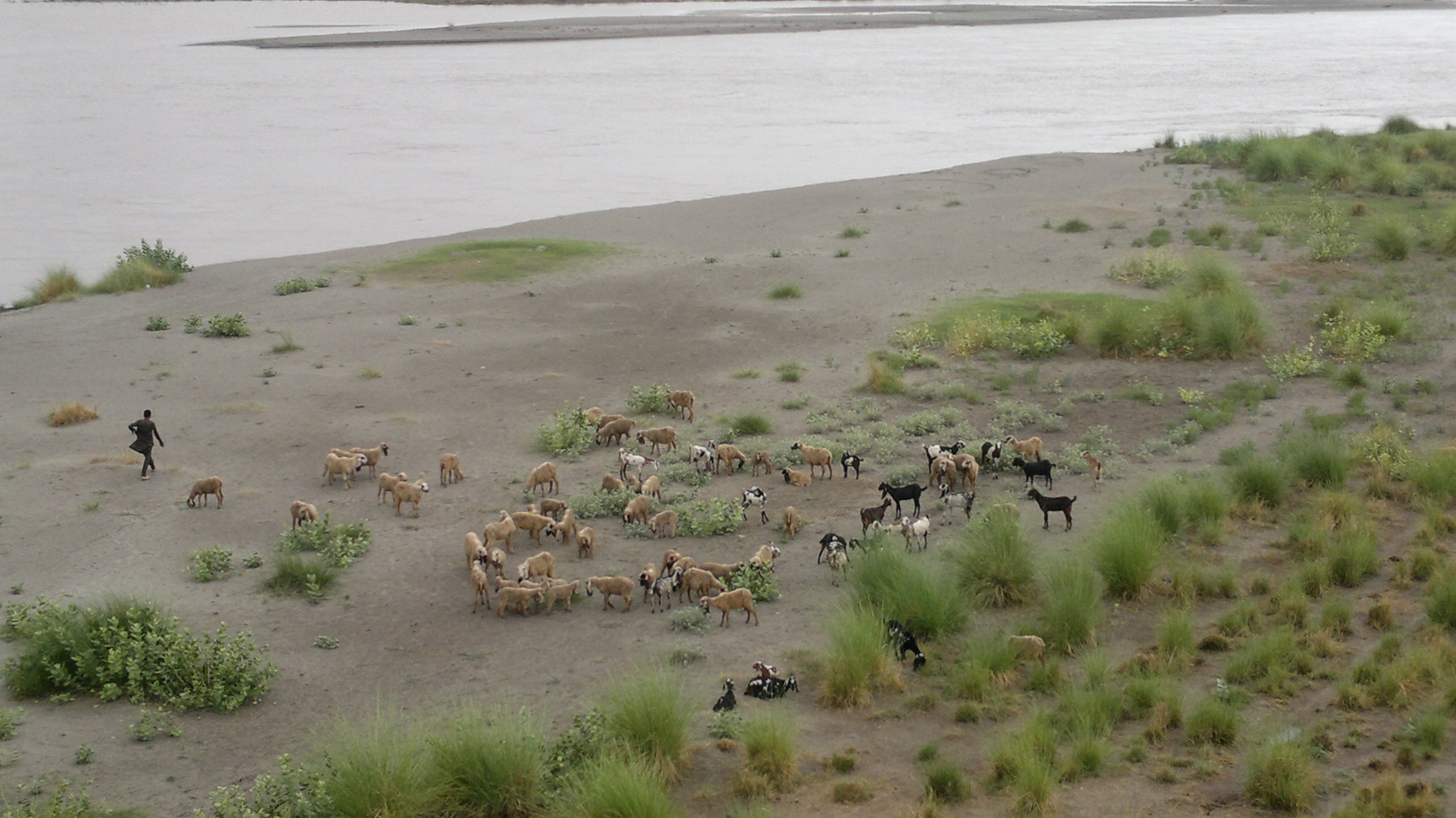 Its Chinab River near chiniot punjab.